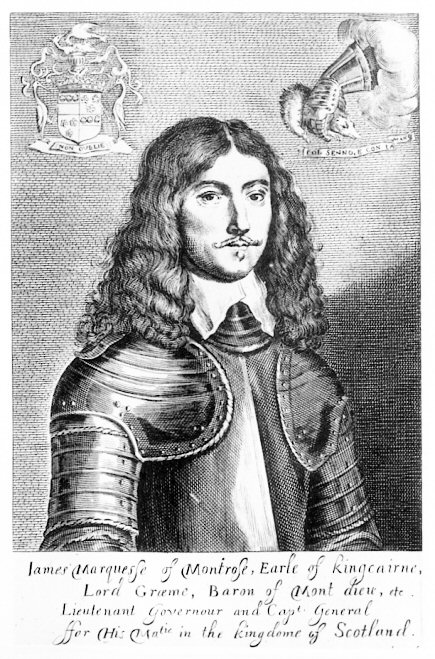 James_Graham_5th_Earl_of_Montrose_(1612-50)